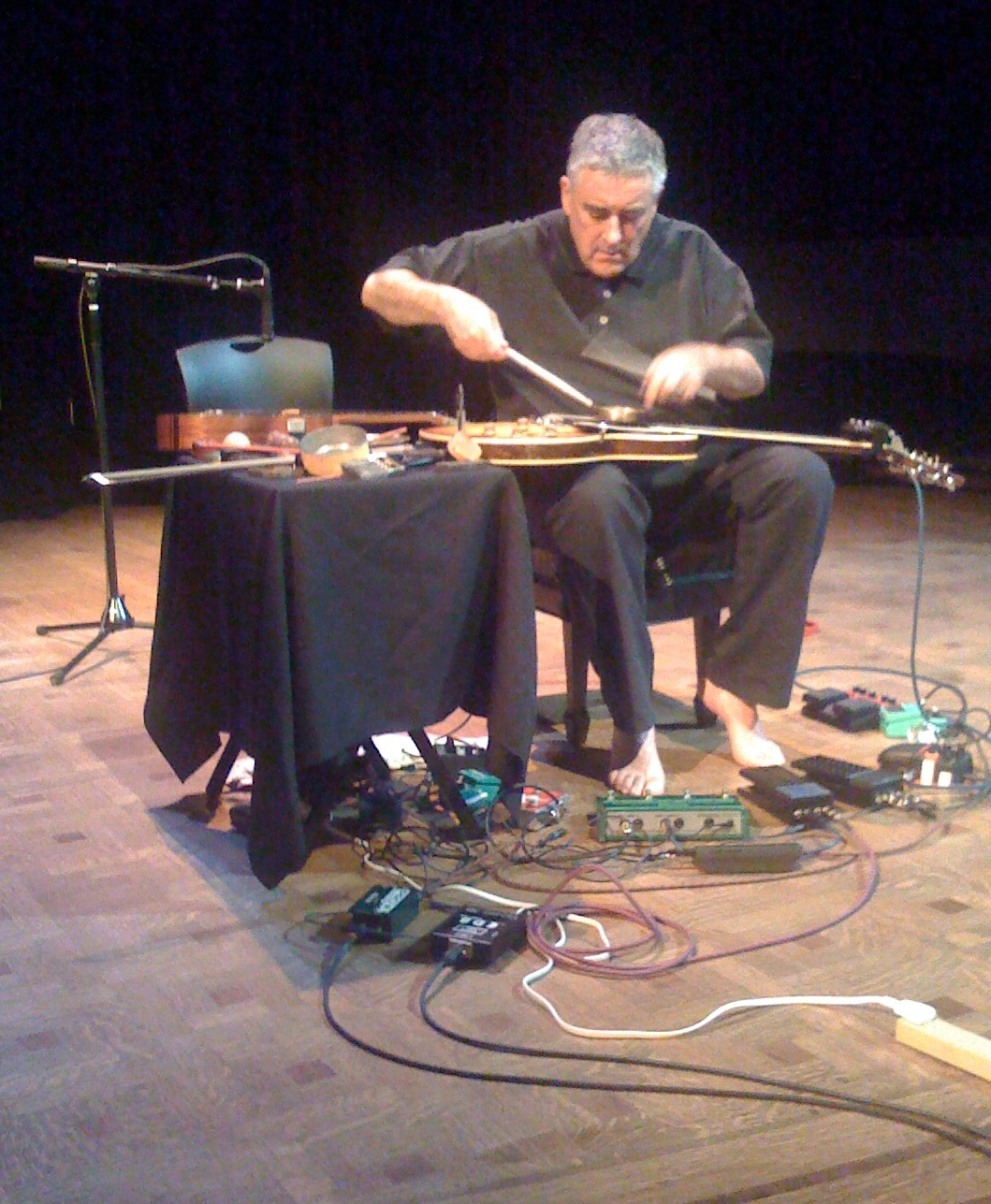 Fred Frith performing in Wallingford, Seattle, 2009-04-25.